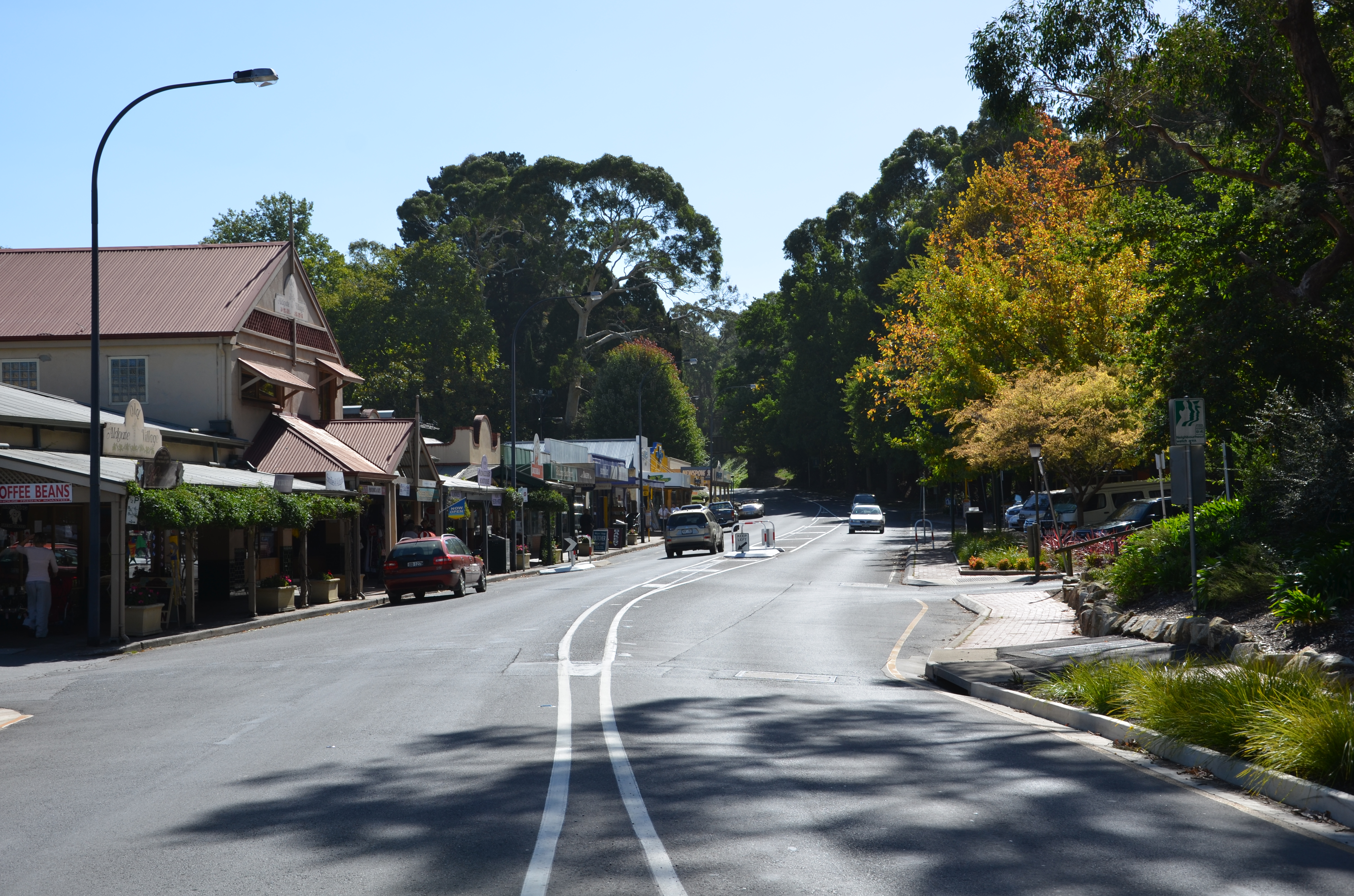 Looking west along the main street of Aldgate, South Australia.